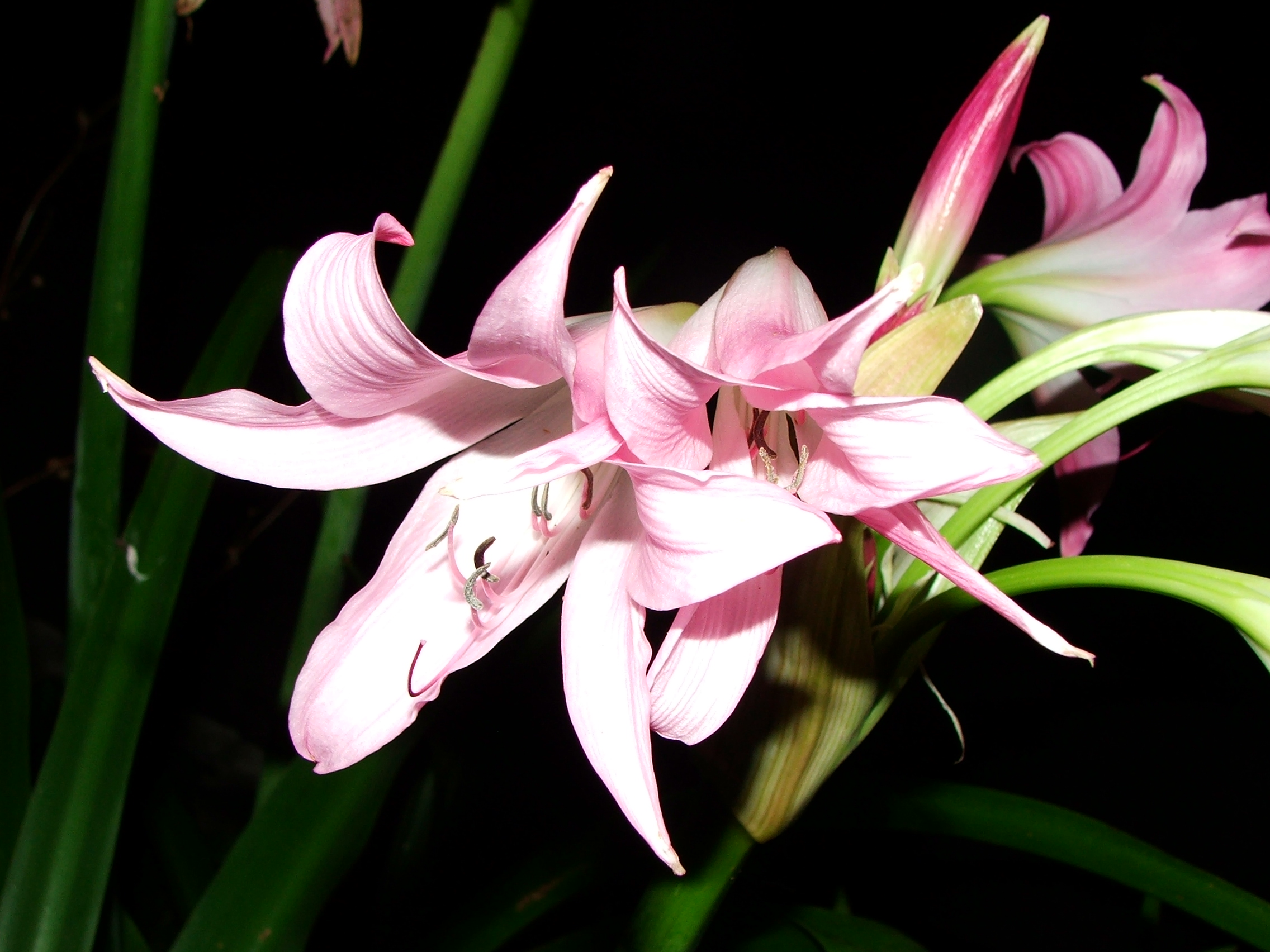 Crinum ×powellii